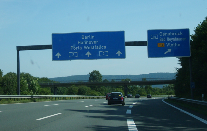 A2 motorway (Bundesautobahn 2) in Bad Oeynhausen, North Rhine-Westphalia, Germany